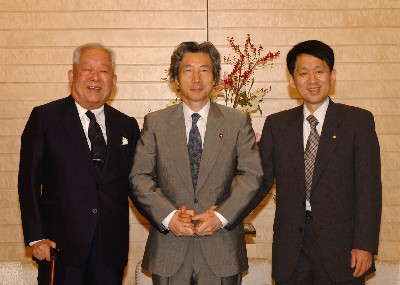 Masatoshi Koshiba, Emeritus Professor of the University of Tokyo, and Kōichi Tanaka, Employee of the Analytical and Measuring Instruments Division, Life Science Business Unit, Shimadzu Corporation, met Jun'ichirō Koizumi, Prime Minister, at the Prime Minister's Official Residence in Chiyoda Ward, Tōkyō Metropolis on October 11, 2002.